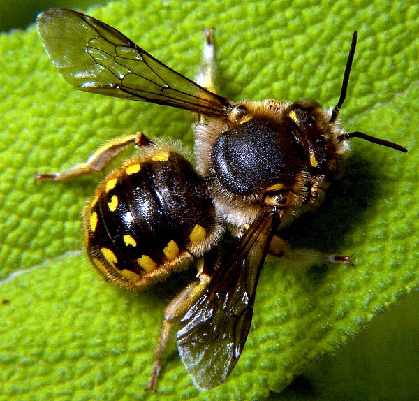 male leaf-cutting bee Anthidium manicatum commonly know as the "wool carder bee". This is an invasive species acidentally introduced to North America from Europe; more pictures and info at